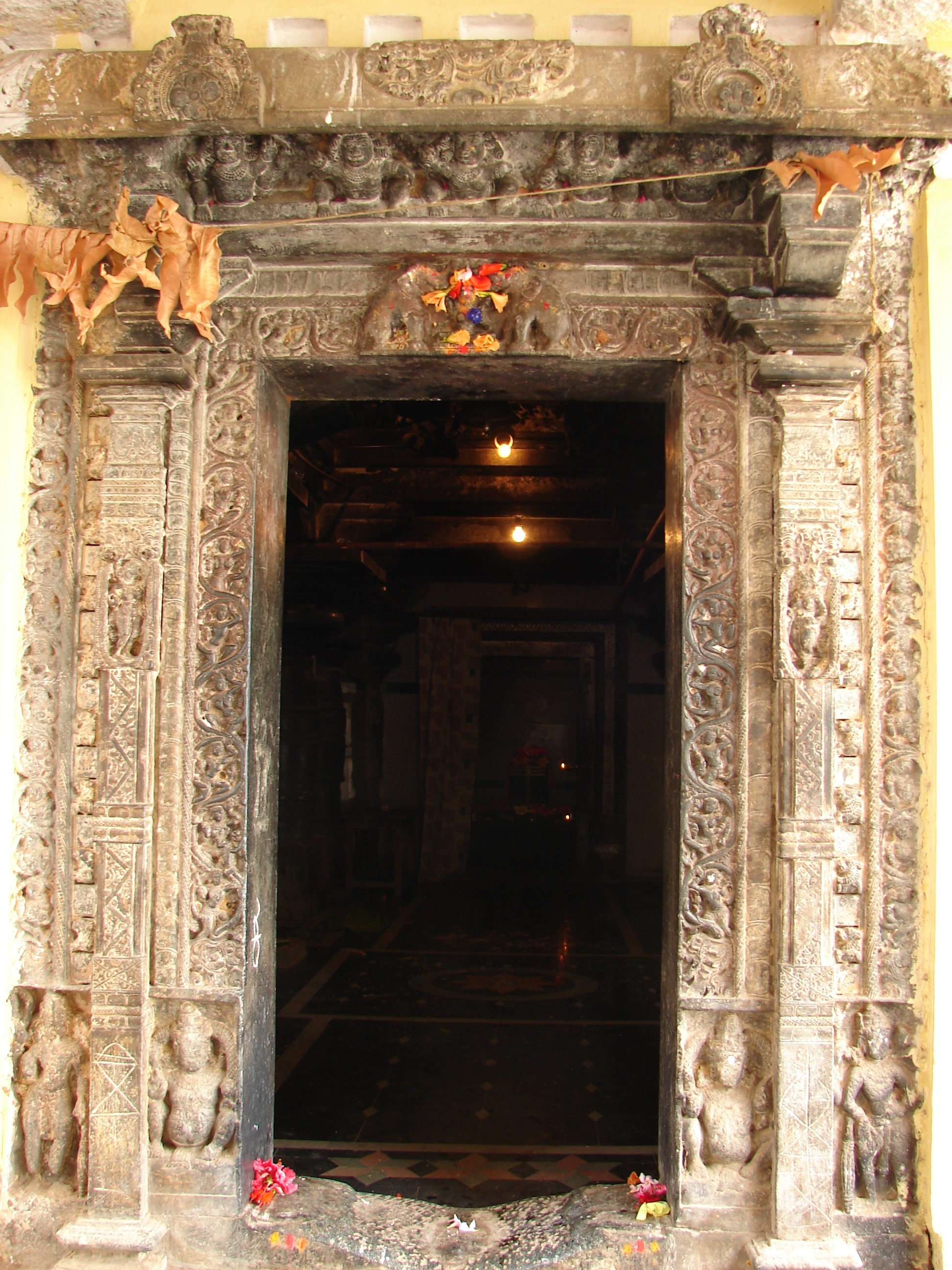 This photograph was taken by me at the Kalleshvara temple (also spelt as Kalleshwara) in Aralaguppe, Tumkur district, Karnataka state, India. This 9th-10th century construction is a good example of the Nolamba dynasty style of architecture.